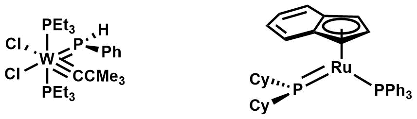 Examples of planar phosphido complex